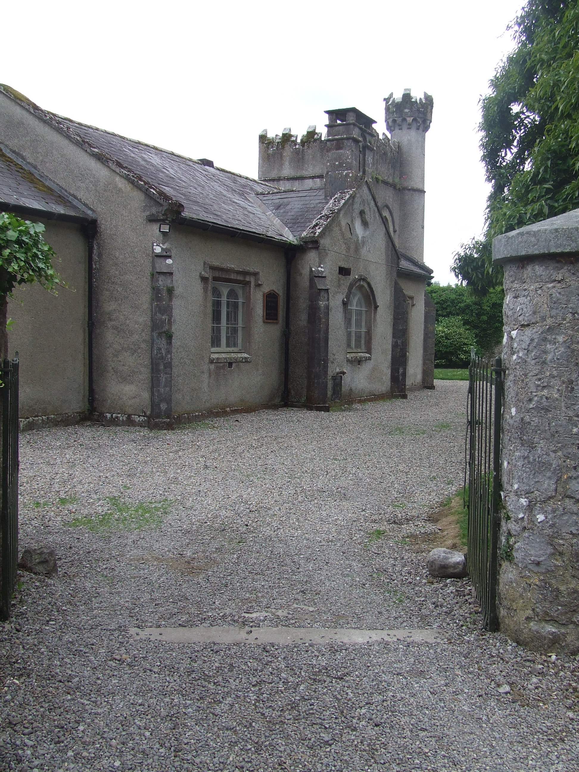 St Peter's Church, Donadea demense. Part of the Union of Clane in the Church of Ireland.